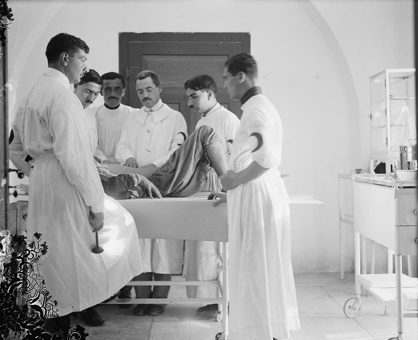 Ottoman Red Crescent Jerusalem